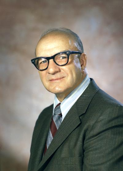 Representative A. A. Adams, 1971